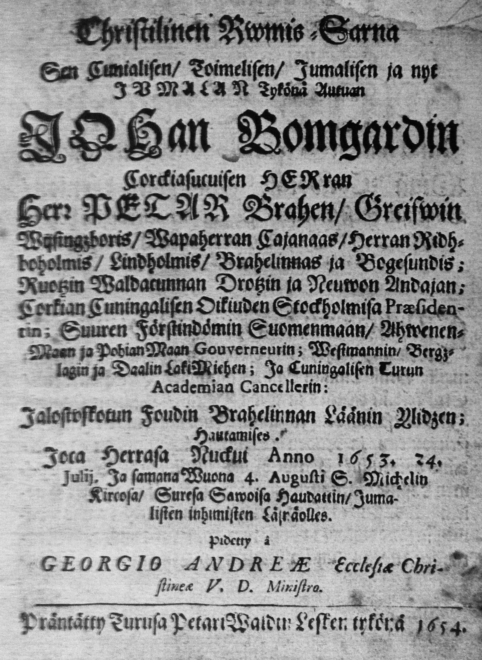 Georgius Andreae Kyander: Funeral sermon over Johan Bomgard, 1654. The first biographical text printed in the Finnish language.